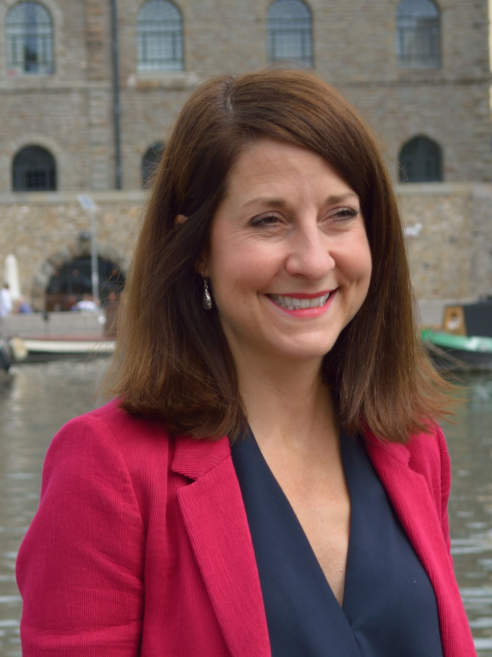 Liz Kendall, on Bristol harbour-side near the SS Great Britain. She was about to speak at a Labour Party 2015 leadership election meeting in Bristol, at the Great Eastern Hall in the SS Great Britain museum complex.